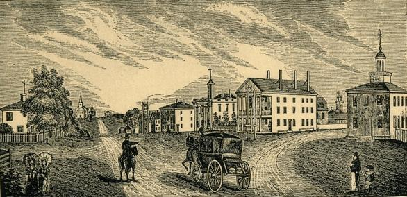 View of Lenox, MA; from an 1839 woodprint by John Warner Barber, published in Massachusetts Historical Collections, 1839.